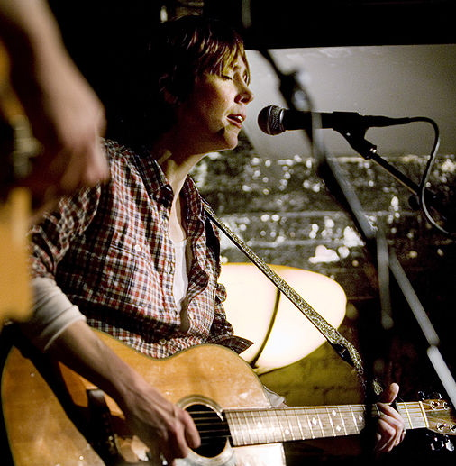 Beth Orton plays the Mojo club night at the Slaughtered Lamb, Clerkenwell